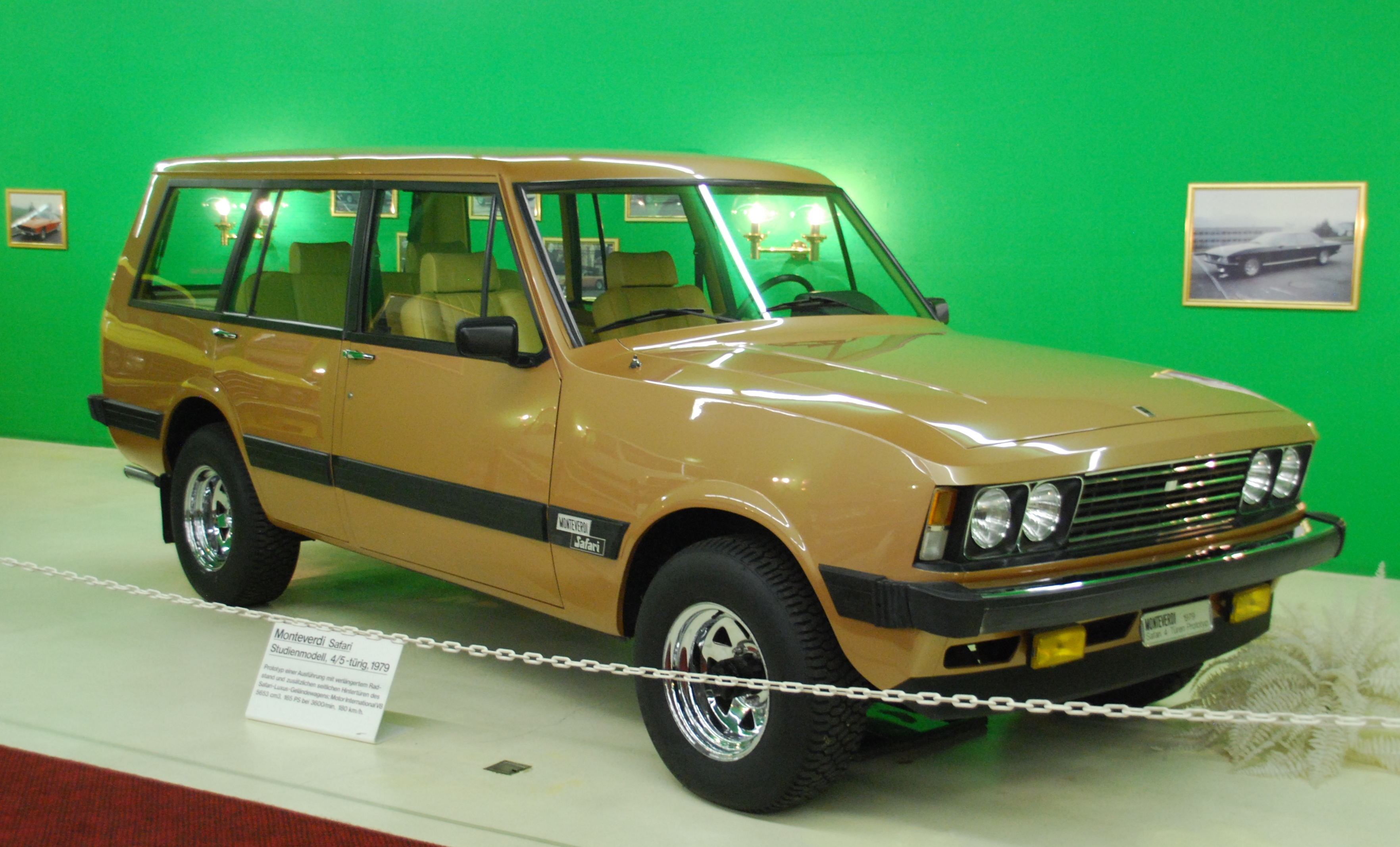 Monteverdi Safari 4-door Station Wagon, Prototype.